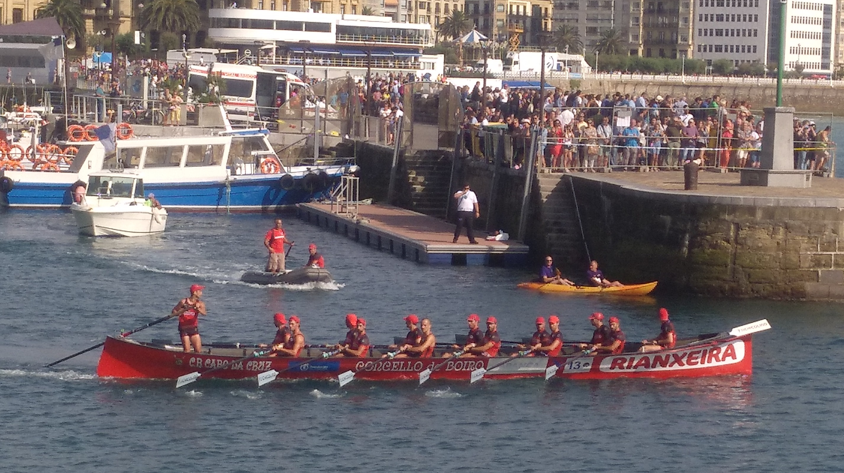 Club de Remo Cabo da Cruz, Flag of La Concha, 2018